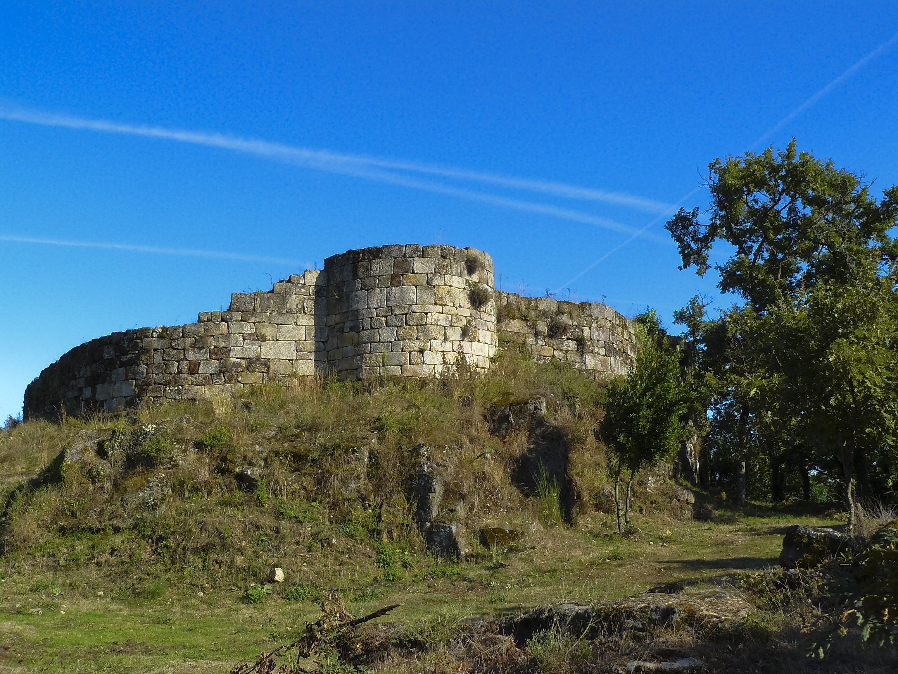 Peroxa`s casttle - Ourense - Galiza - Spain